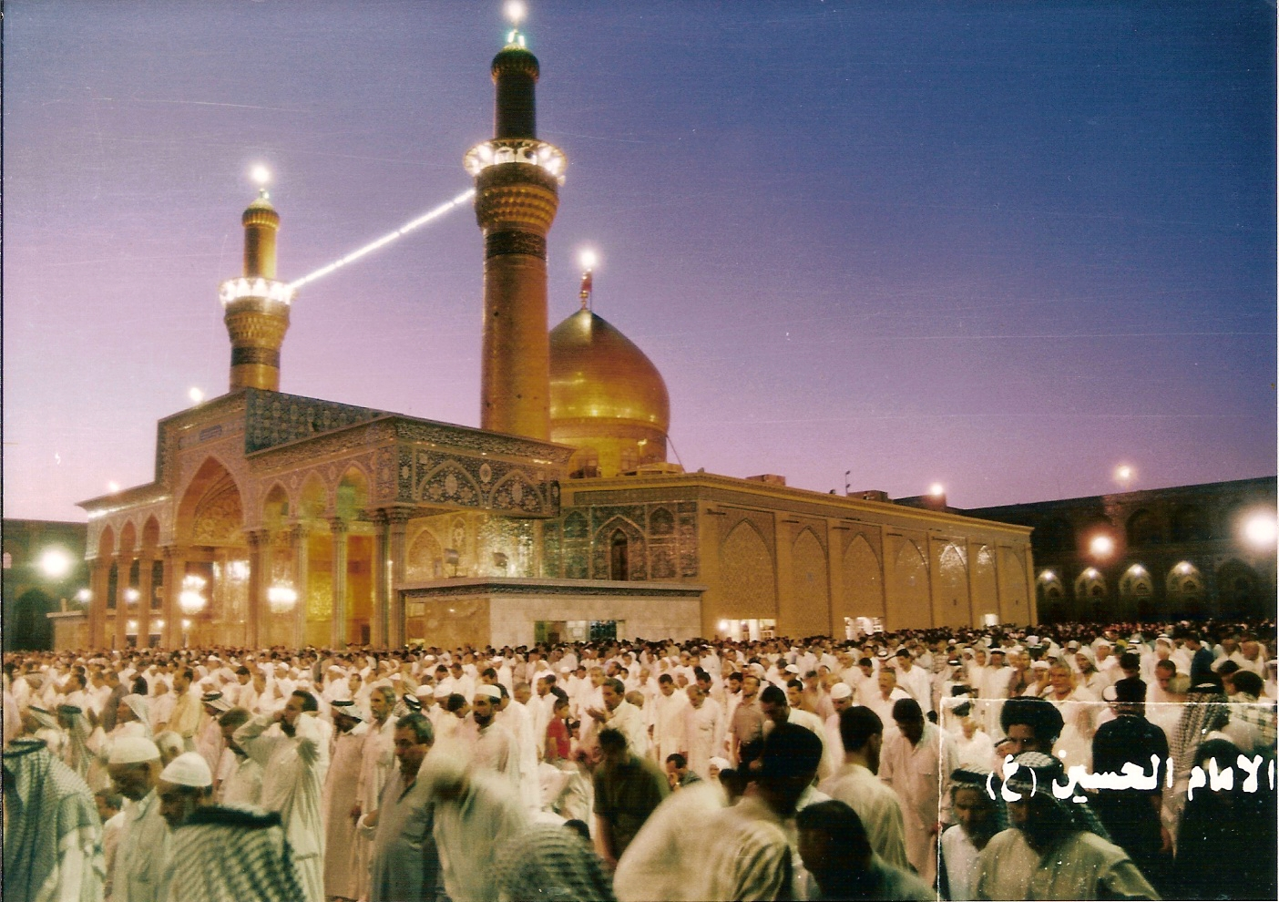 Imam Husayn Mosque - Shrine of: Imam Husayn, Ali Akbar, Ali Asghar, Habib ibn Madhahir, all the martyrs of Karbala, and Ibrahim ibn Imam Musa al-Kadhim. (Karbala, Iraq)